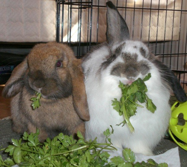 own picture